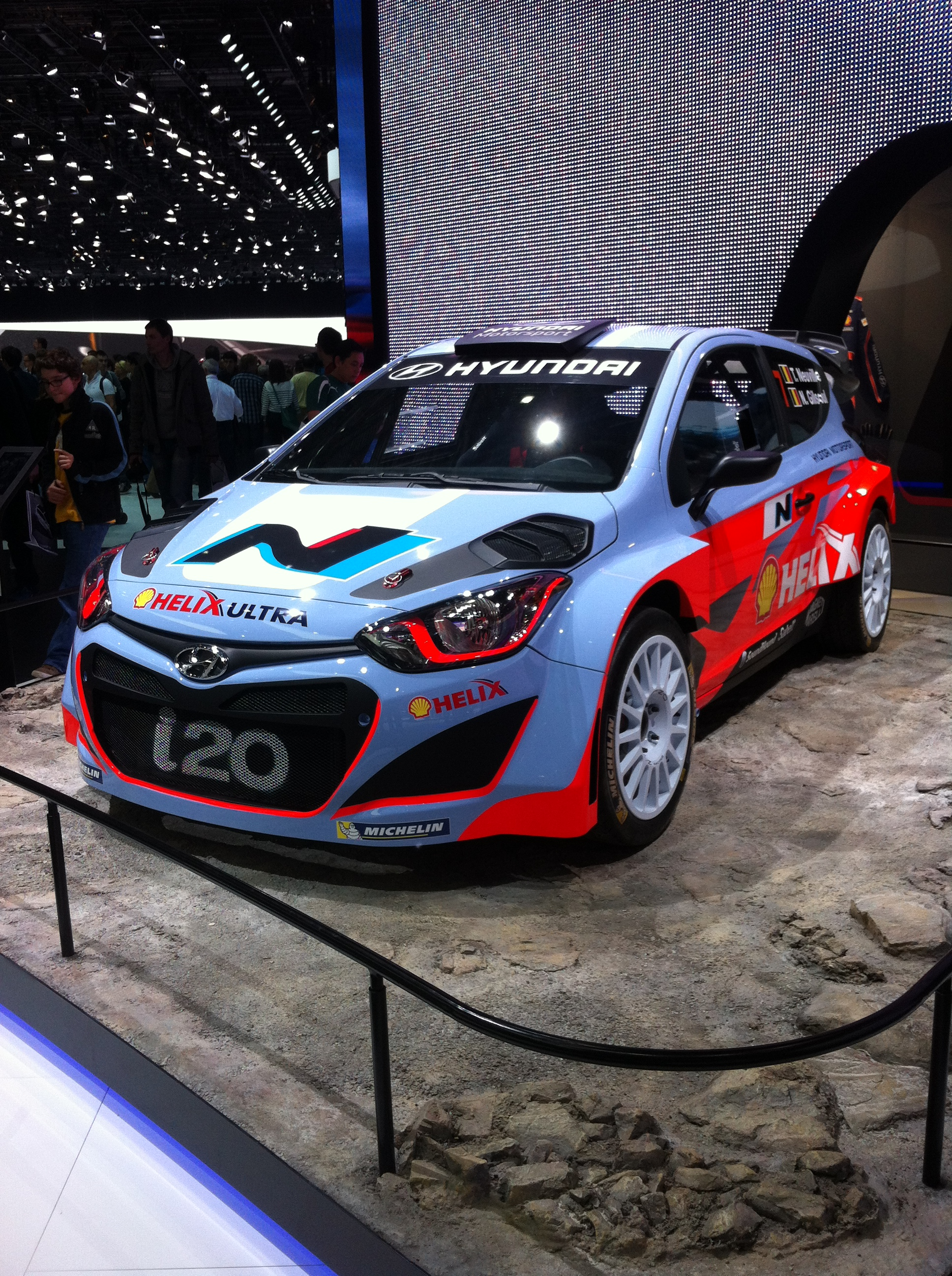 Hyundai i20 WRC at Geneva Motor Show 2014